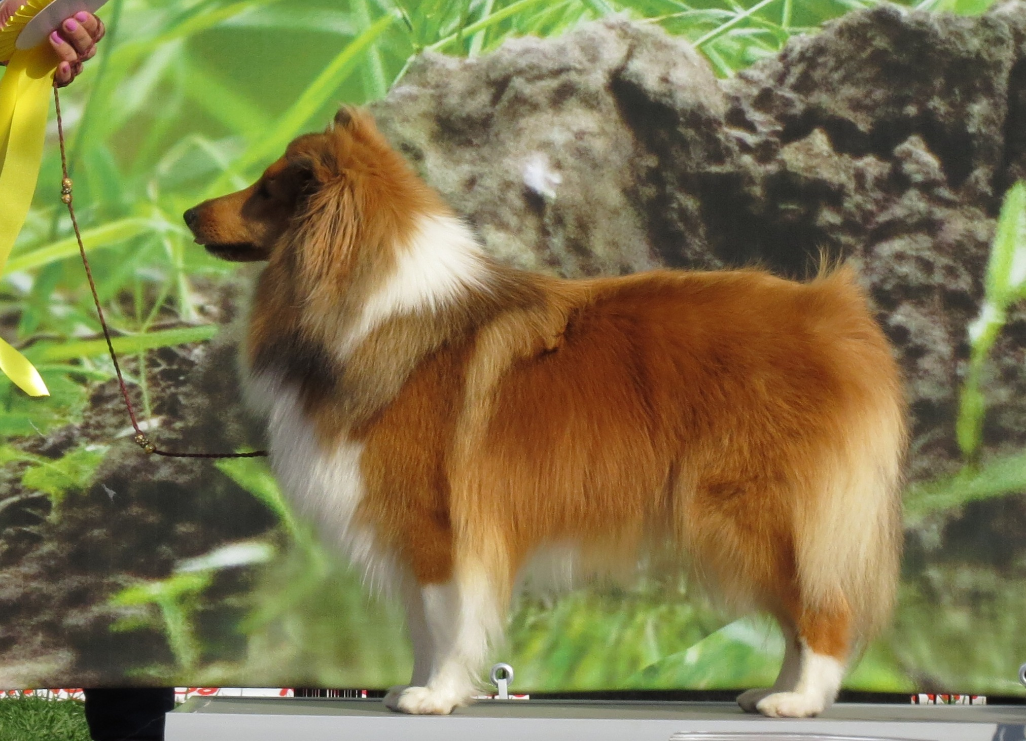 Tallinn, Estonia, duo CACIB 2013, August 17-18